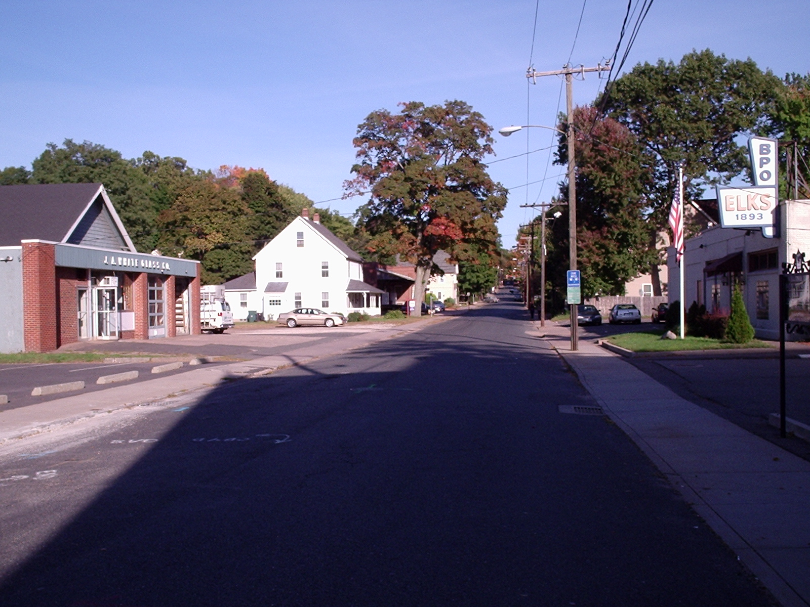 Manchester, CT - Bissell Street looking East of Main Street